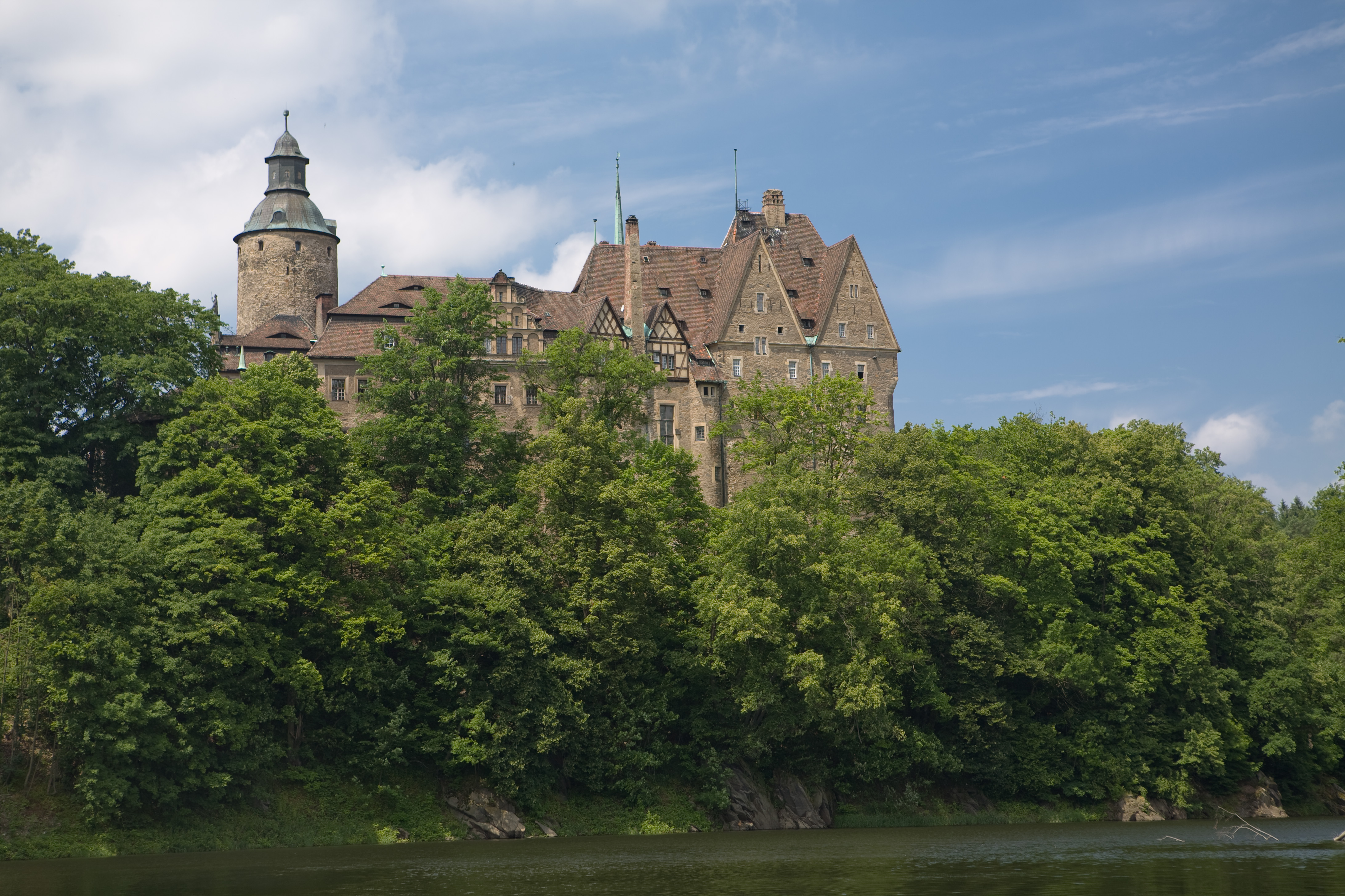 Czocha (Tzschocha) Castle, Lusatia, Poland